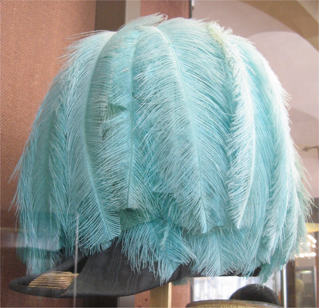 Headgear of a Hauptmann of the austro-hungarian general staff